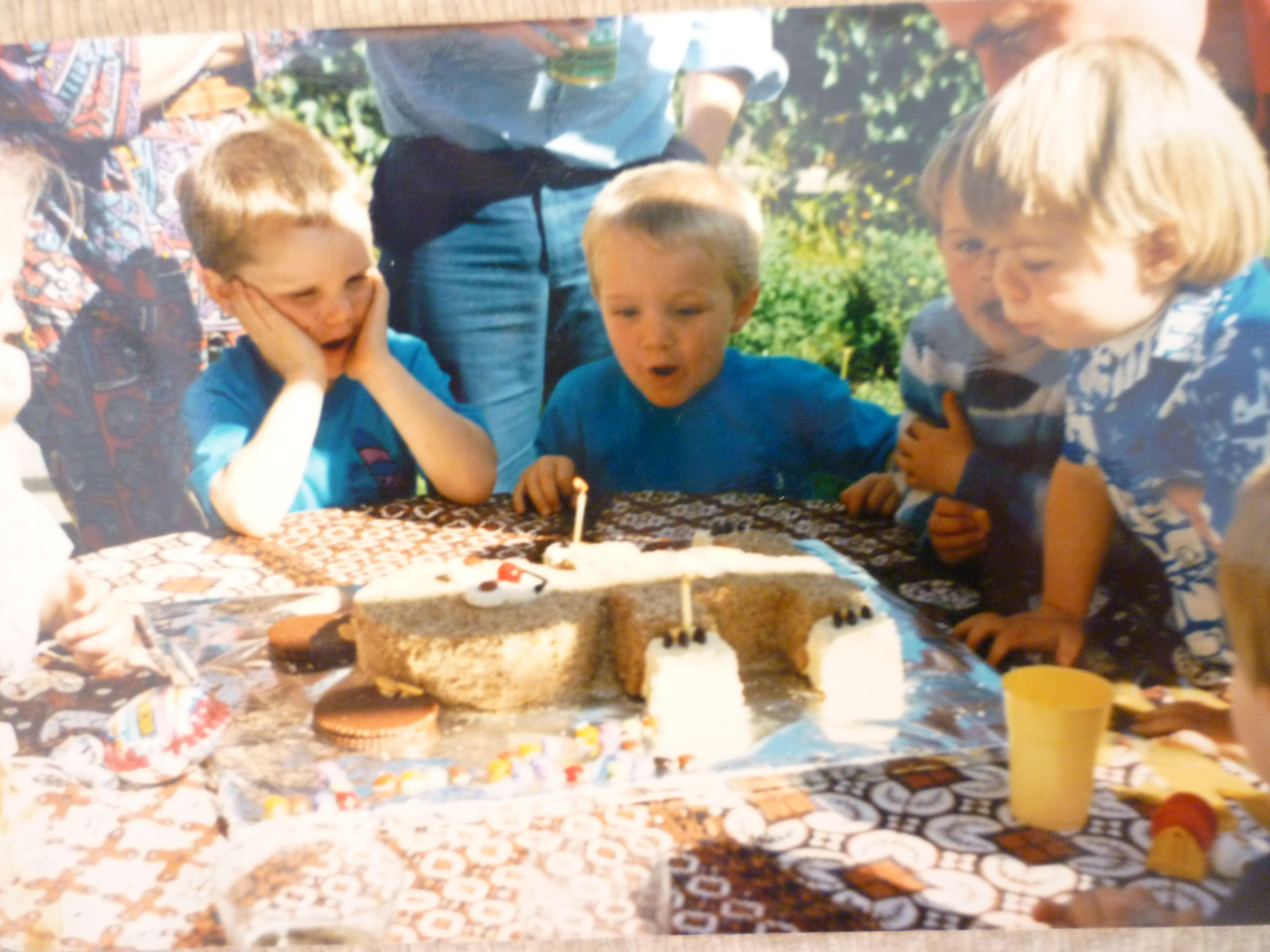 Child blowing out the candle on a koala shaped birthday cake